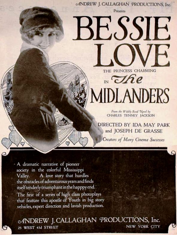 Ad for the American film The Midlanders (1920) with Bessie Love, on page 3611 of the April 24, 1920 Motion Picture News.